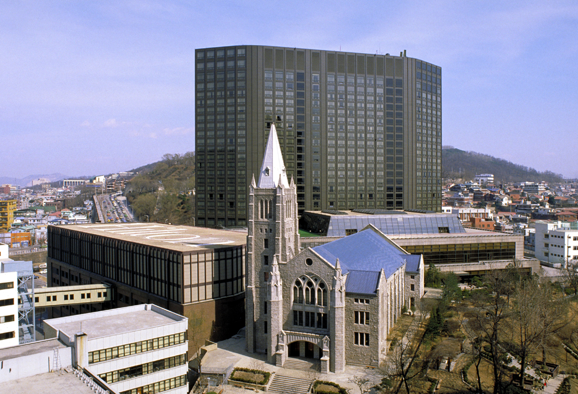 Seoul, Hilton Hotel, 1977-1983